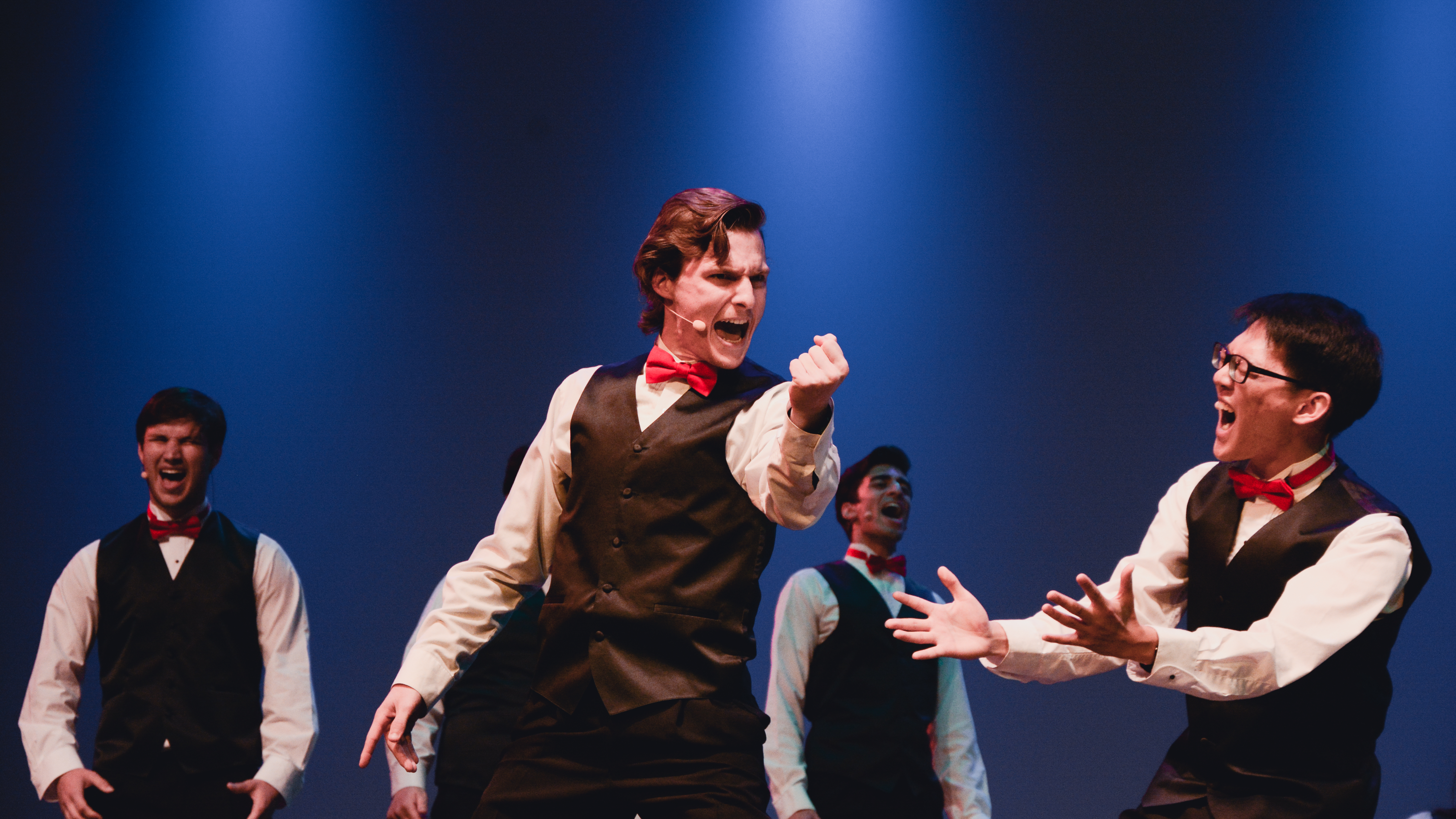 The Stanford Fleet Street Singers singing at their 2019 spring show, in Stanford, CA.